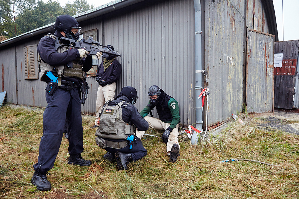 Combined exersize of special police forces of different countries